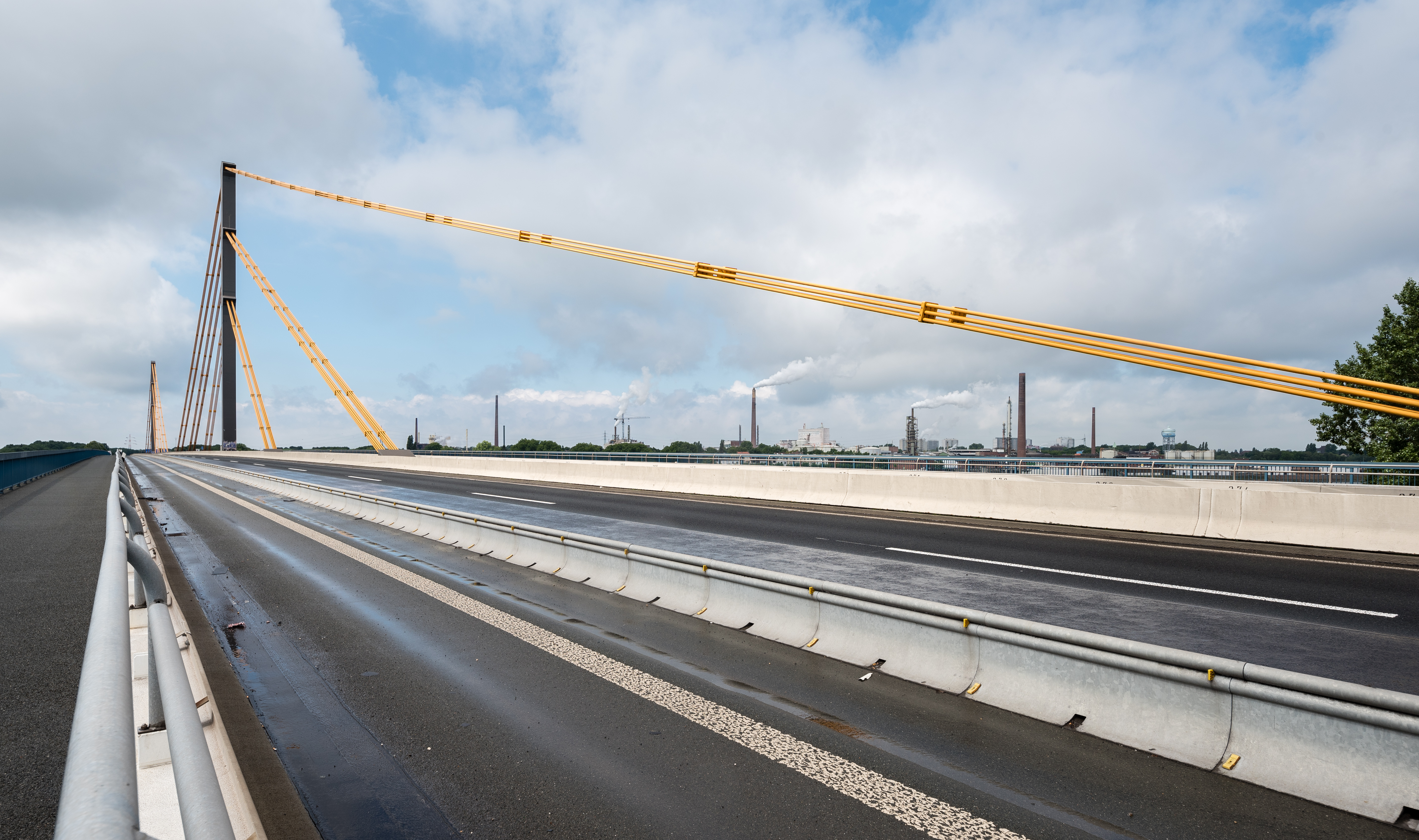 Bridge 'Rheinbrücke Neuenkamp' over the Rhine at Duisburg / Bundesautobahn 40 (Federal Motorway 40) during closure in August of 2017